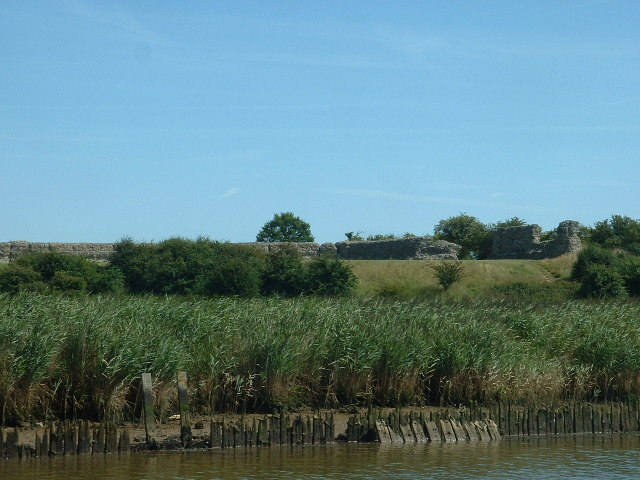 Burgh Castle. A Roman fort, possibly "Gariannonum"